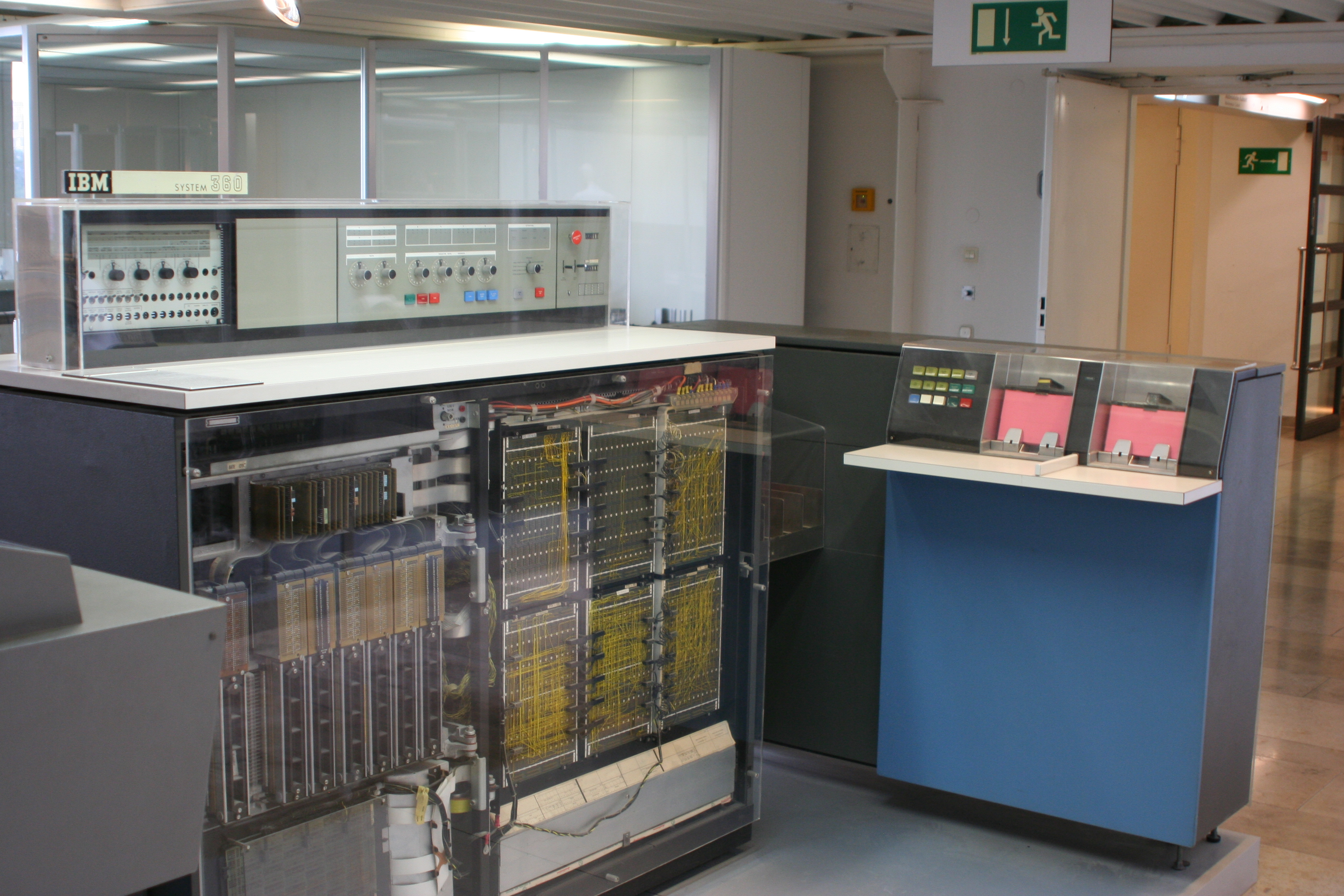 An IBM System 360/20 computer on display at the Deutsches Museum in Munich Germany. Front panels are removed. An IBM 2560 MFCM (multi-function Card Machine) is shown on the right and the corner of a 2203 printer is visible on the left.